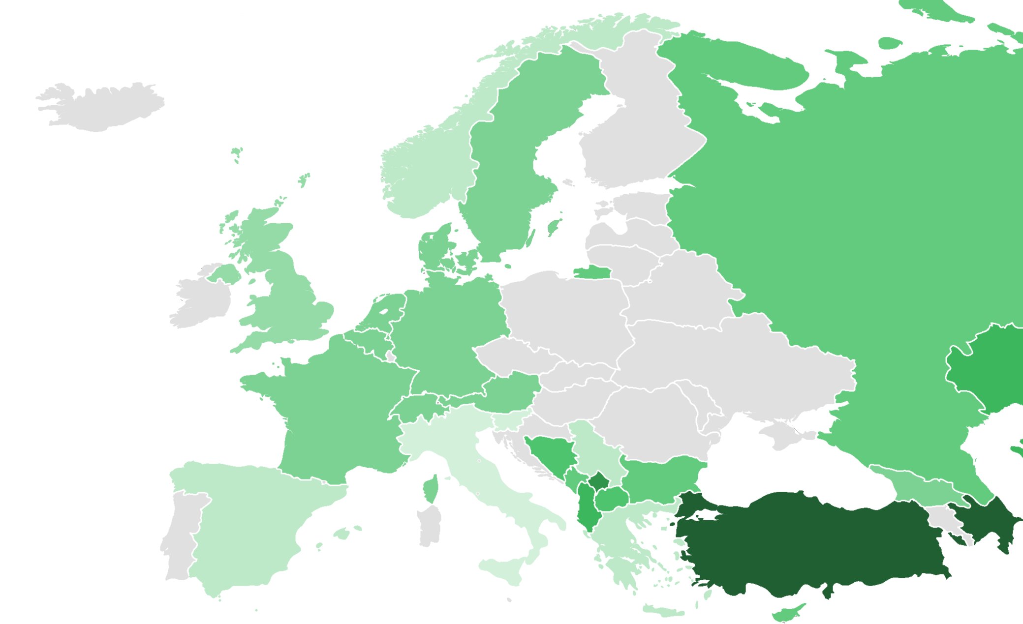 Islam in Europe (data from Islam by country). Colour-code is "not to scale" in order to highlight the coparatively small Muslim minorities in European countries which are not resolved in the 10%-tiers at File:Muslim distribution.png. 95% (Turkey)